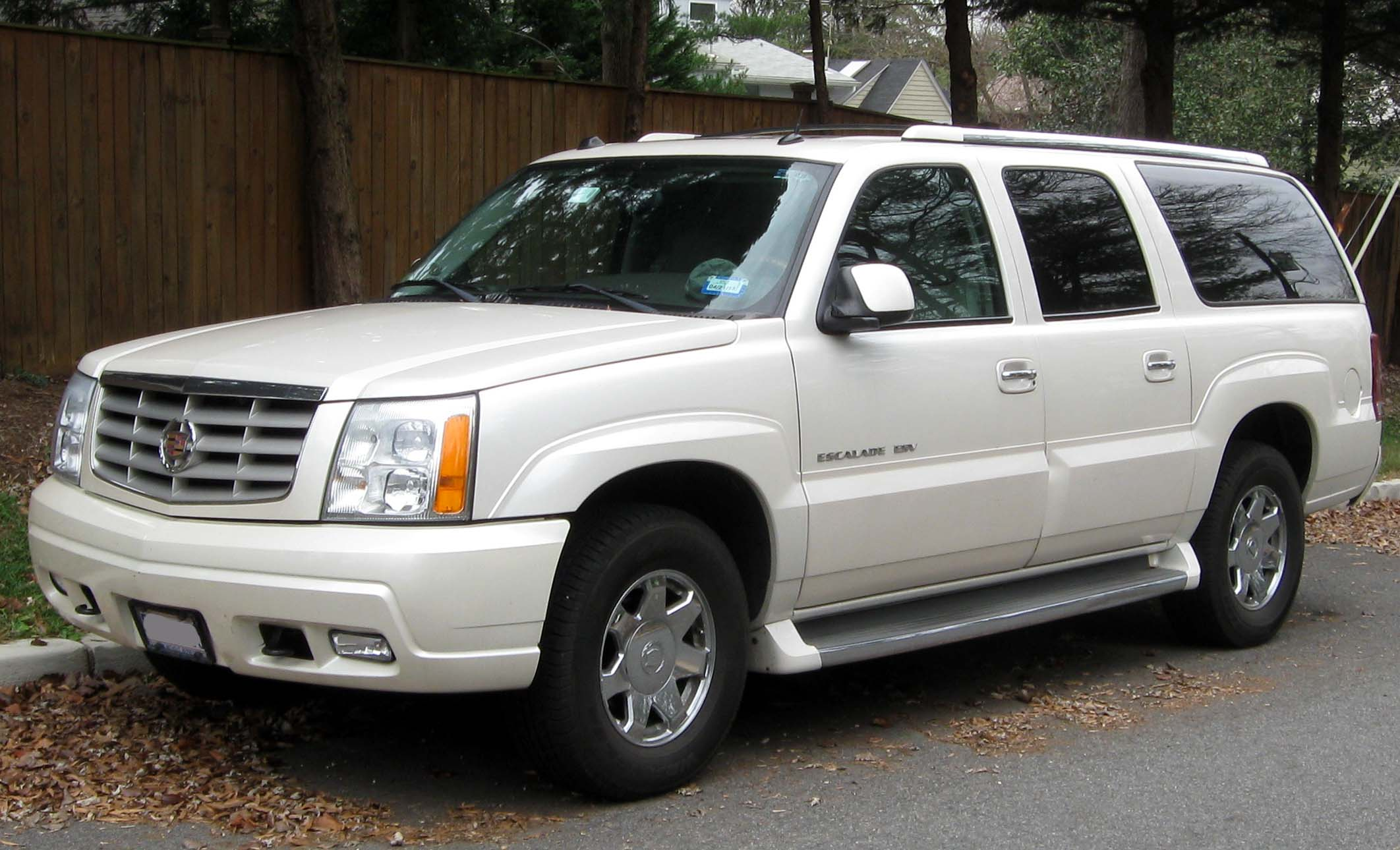 Cadillac Escalade ESV photographed in Washington, D.C., USA.